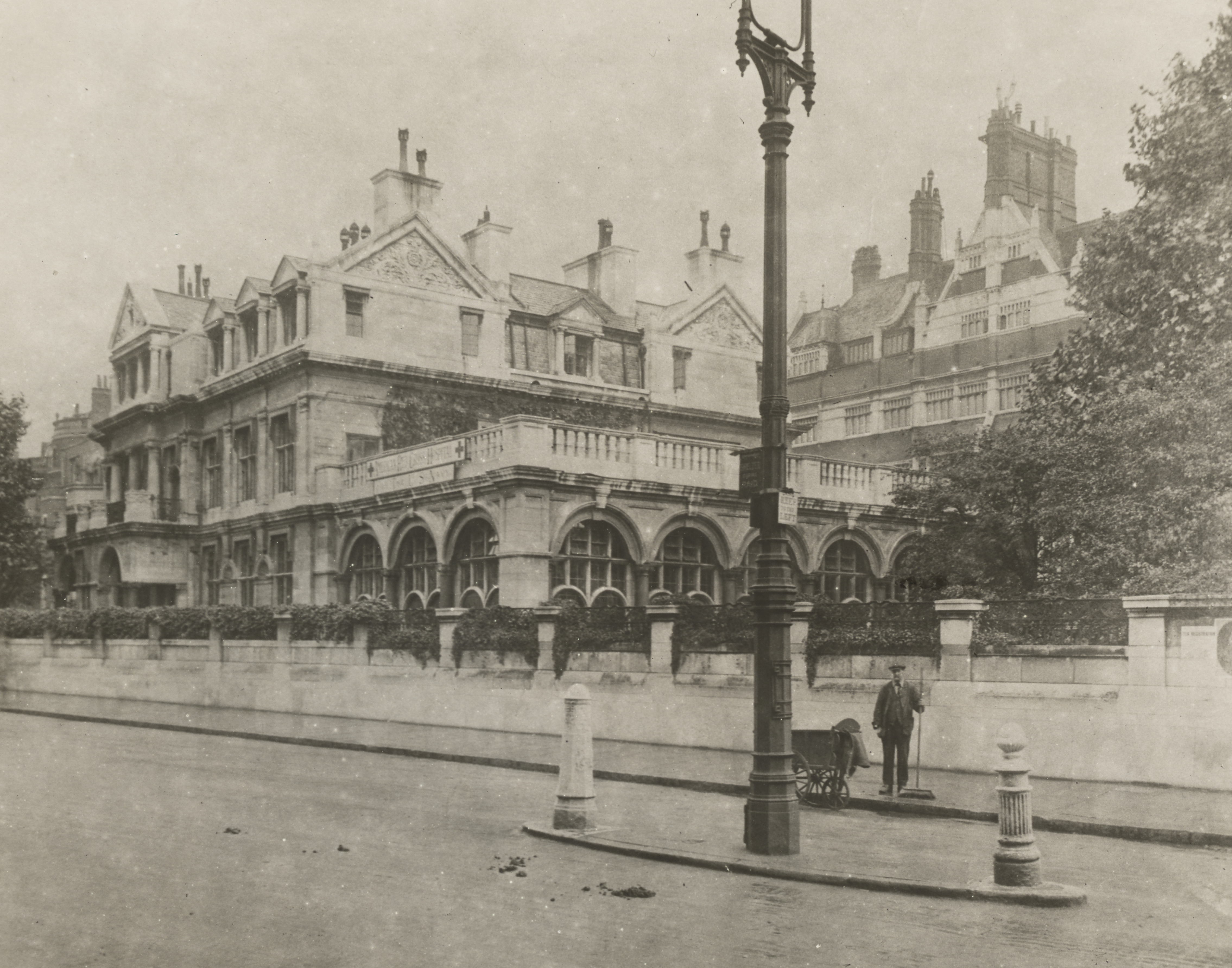 Scope and content: Date Taken: 6/1/1918 Photographer: Western Photo Service